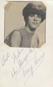 Autographed photo